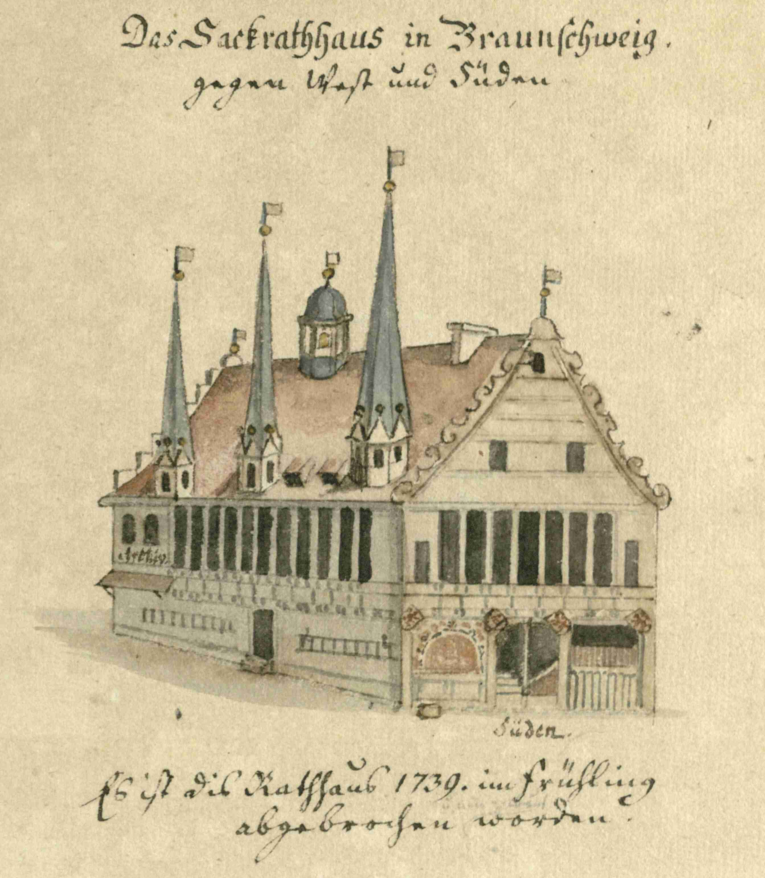 Braunschweig, Germany: Sack Town Hall.